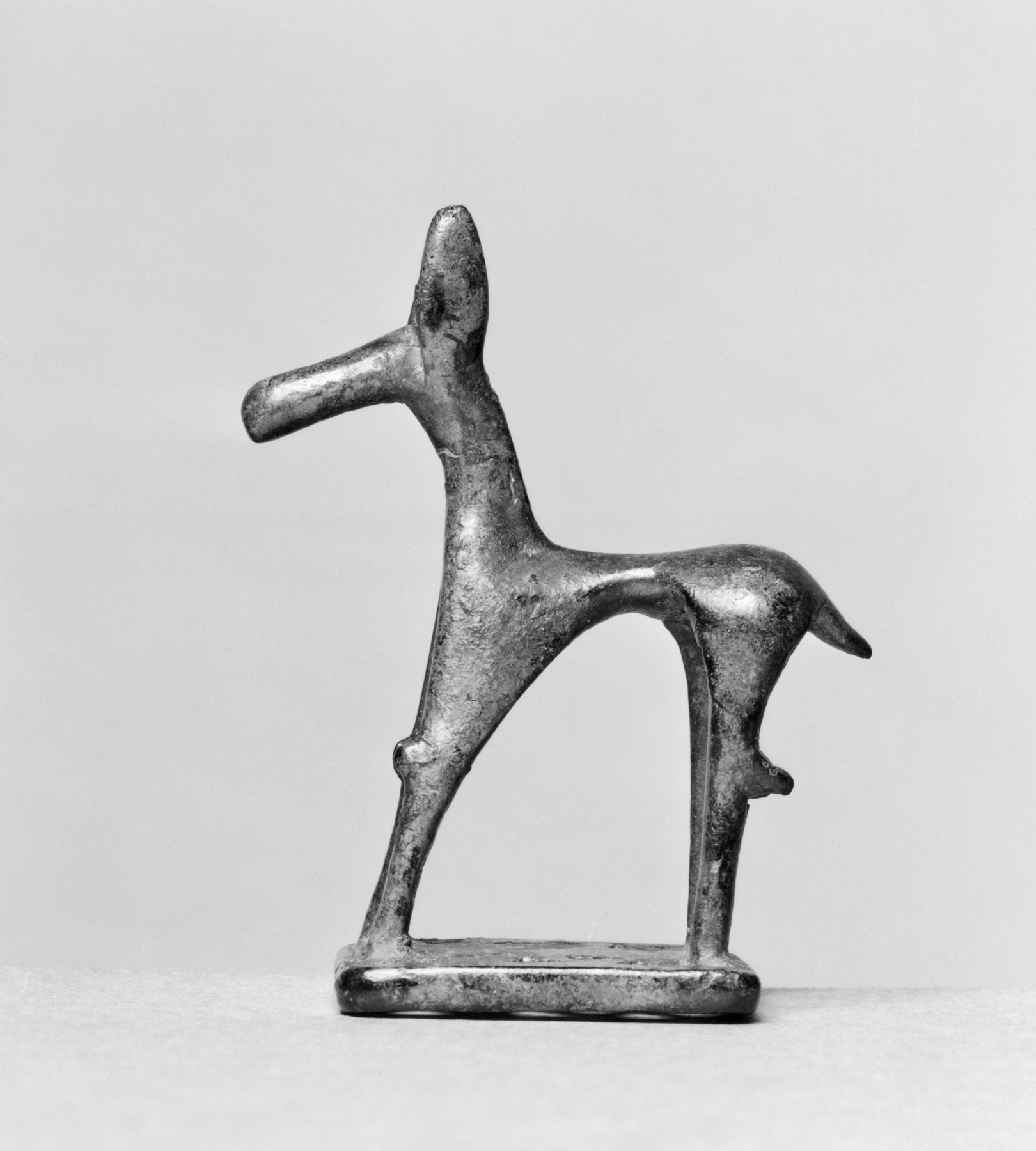 Animals were popular motifs in the Geometric period.